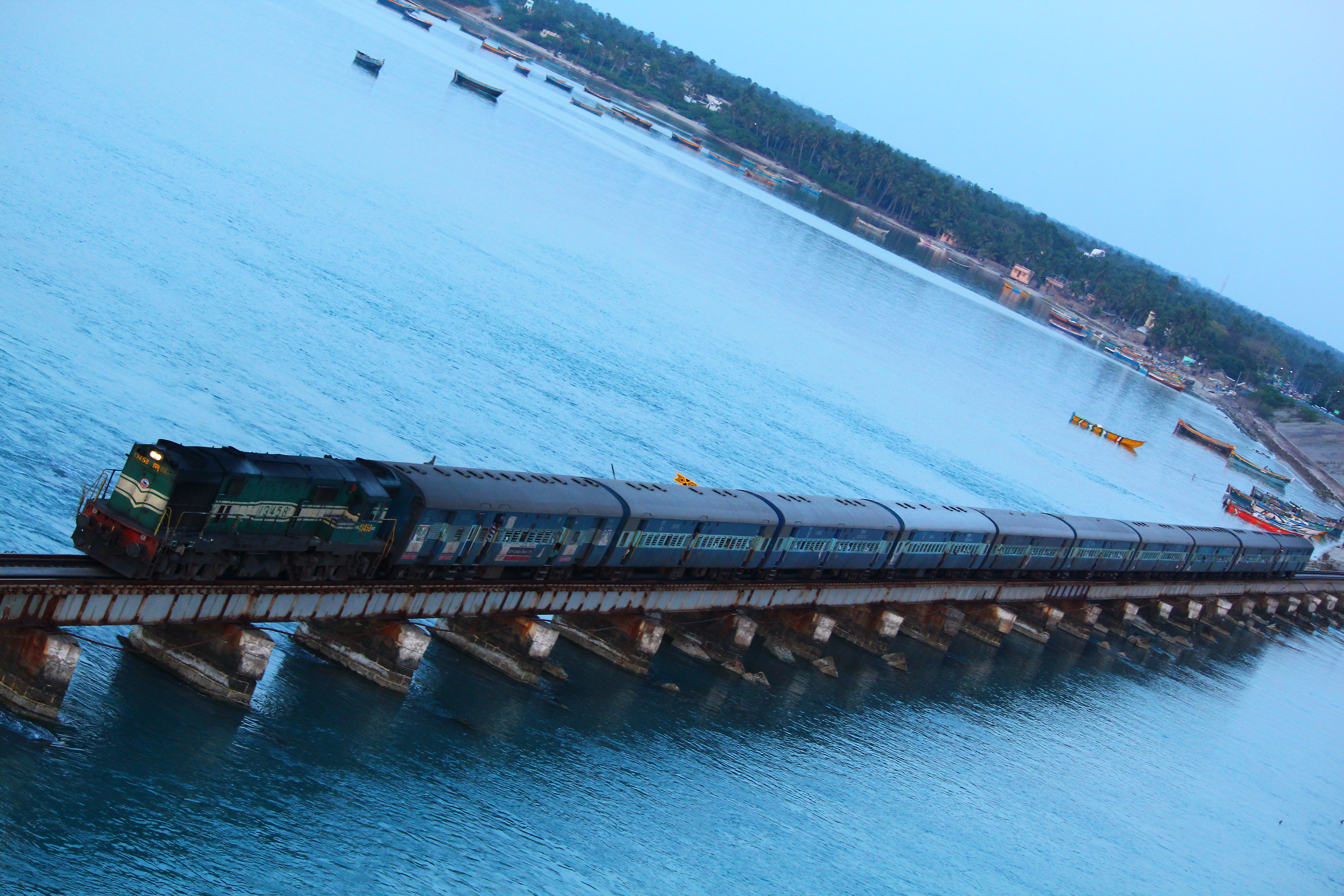 a train crossing pamban bridge